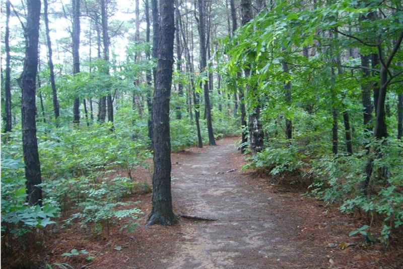 Dankook University background 'Beobhwa' mountain (385m) mountain-climbing route(Yonginsi Jukjeon, Tancheon)